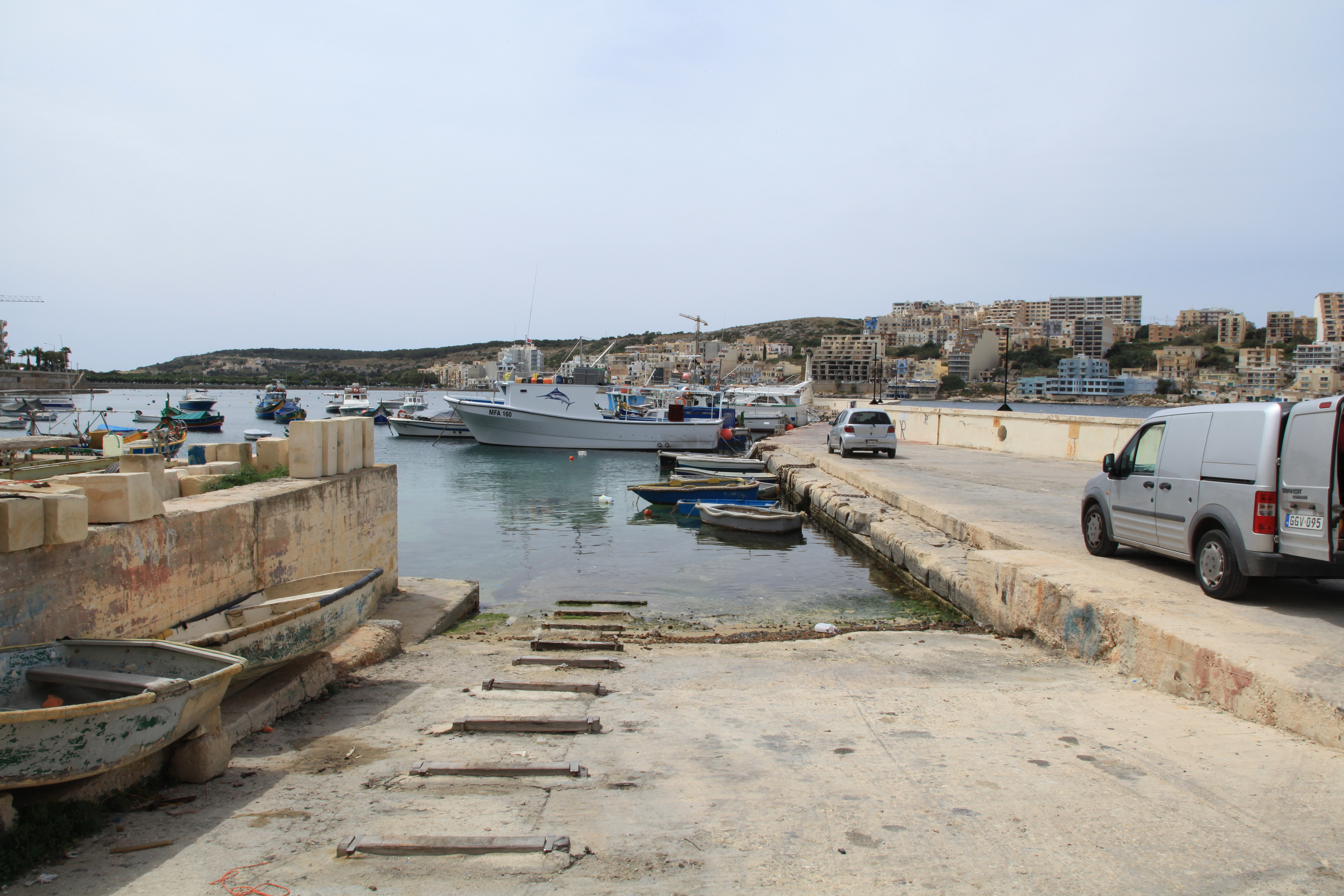 Għajn Rasul Harbour at Triq San Pawl in St. Paul's Bay, Malta